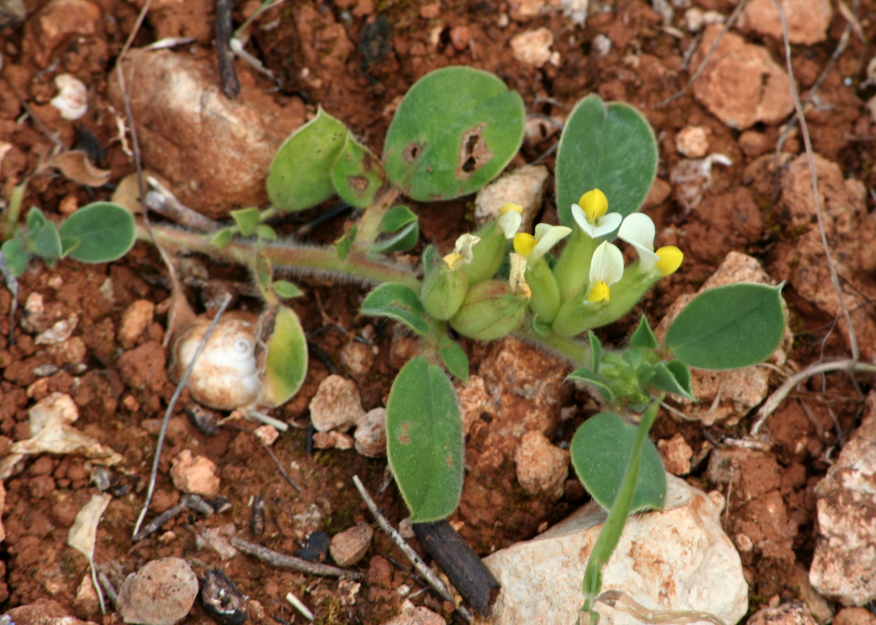 Anthyllis. tetraphylla Algarve Portugal